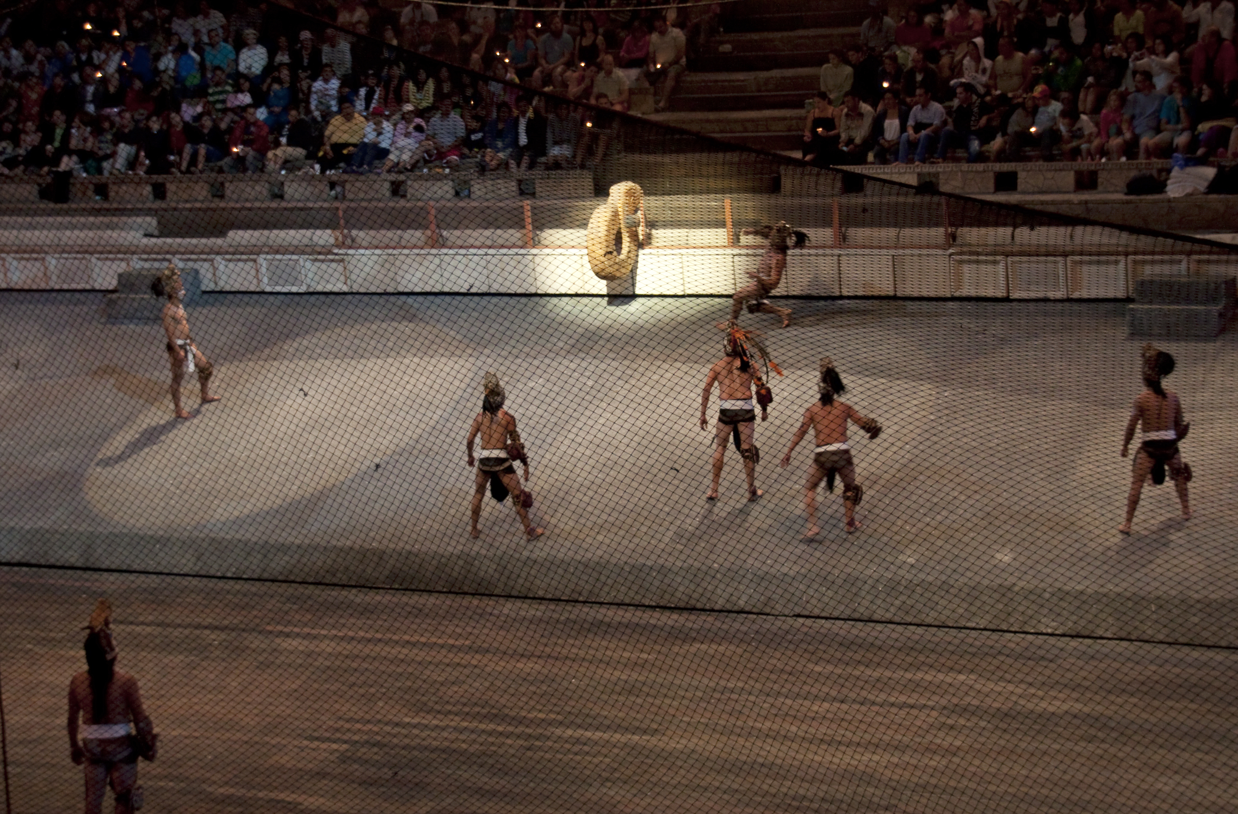 One of the highlights of the evening entertainment at Xcaret was the Mayan Ball game. I'm not sure how authentic it is, but at least it makes it seem possible to play the game at the smaller courts such as Coba. However I still think they couldn't have played this game at the big court at Chichen Itza.